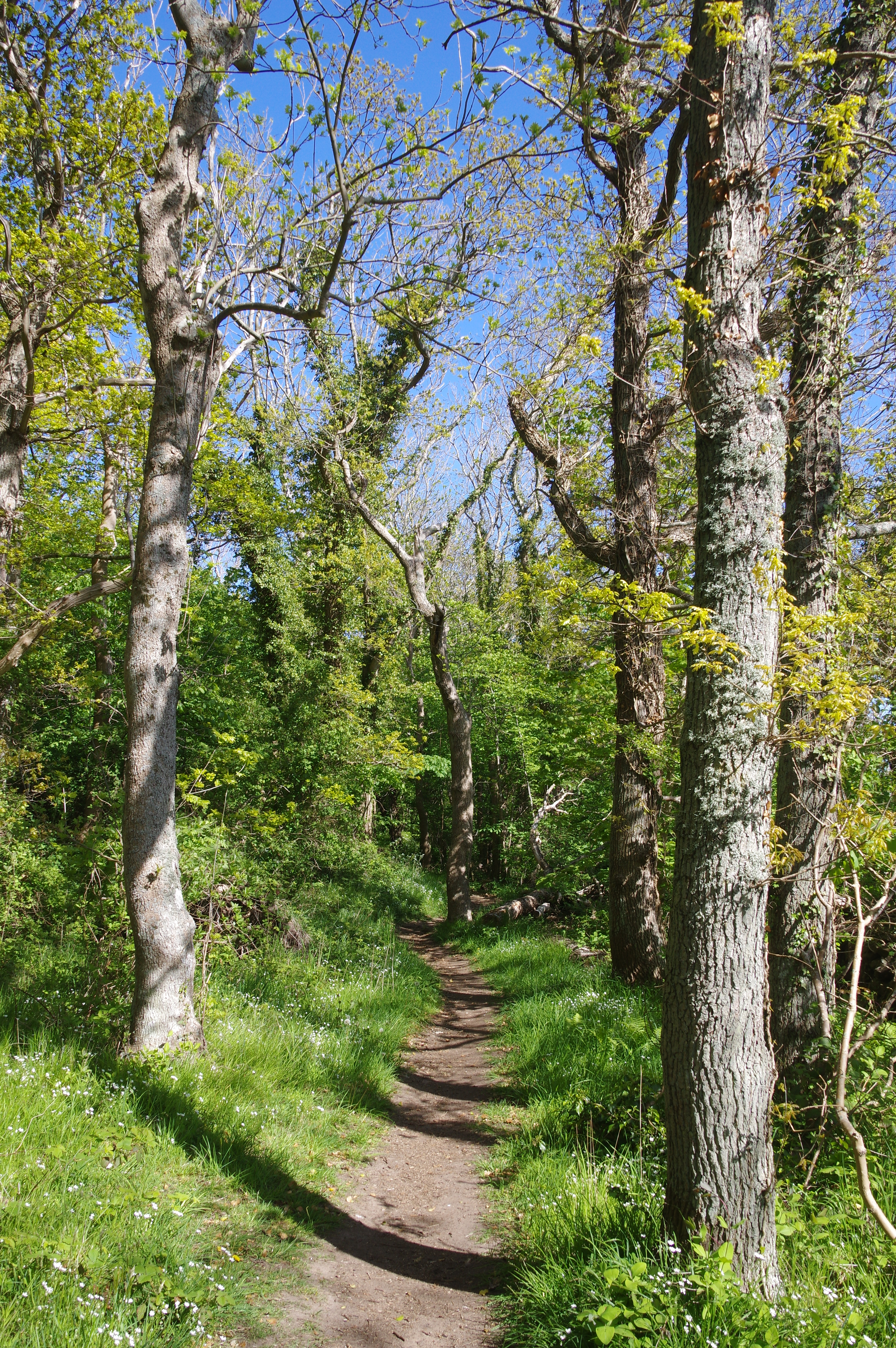 Path in Kullaberg Natural Reserve